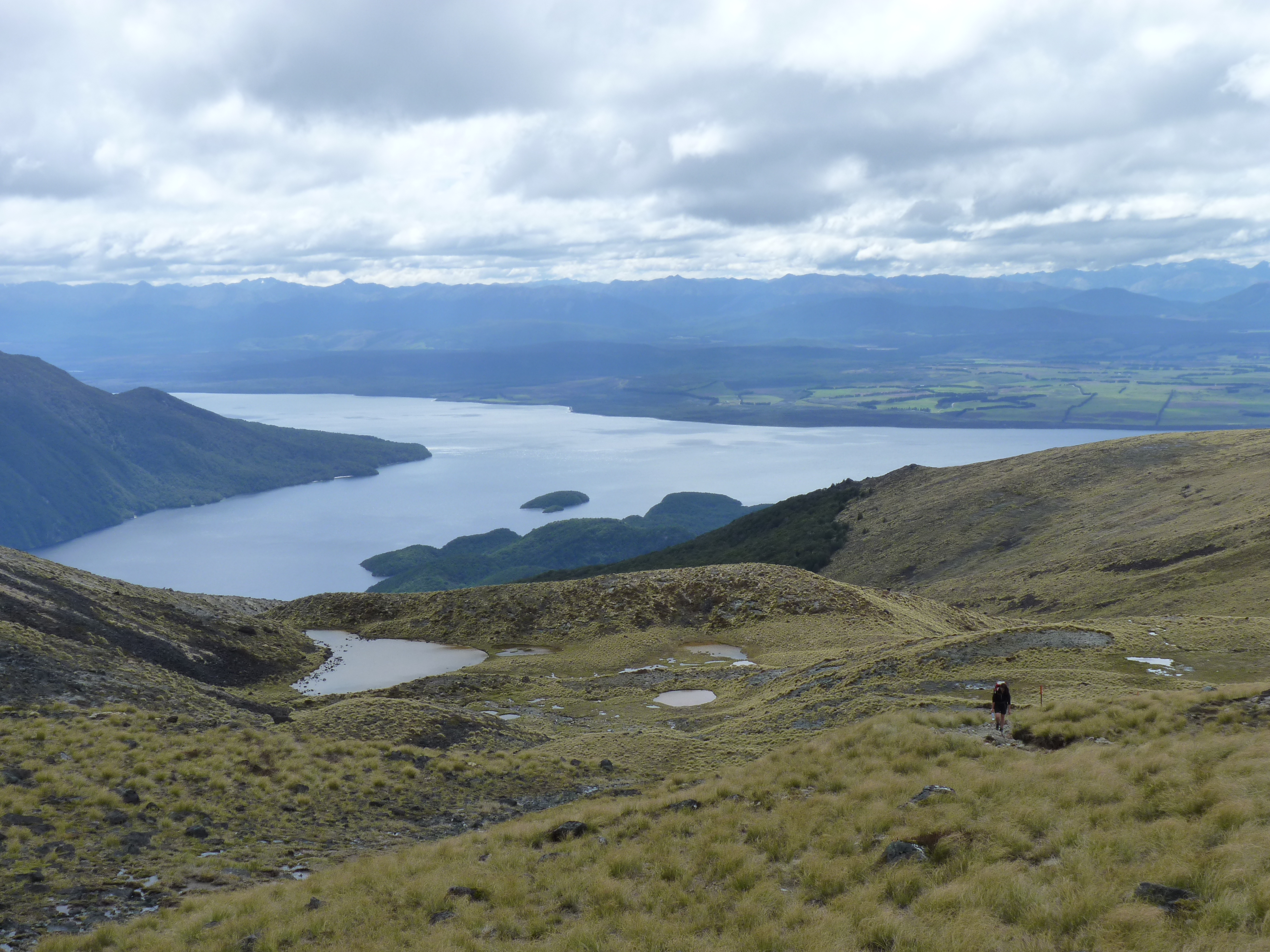 Kepler Track, South Island, New Zealand